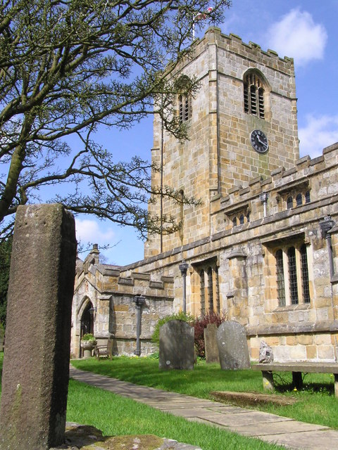 Kirkby Malham Church (St Michael and All Angels ) The plant pot by the porch was the church font between circa 1650 and 1879 when the original Saxon / Norman font was found on a rubbish heap and reinstated to its rightful place inside the church. My Great great great grandmother Jane WINDLE, and her siblings were baptized in this plant pot!